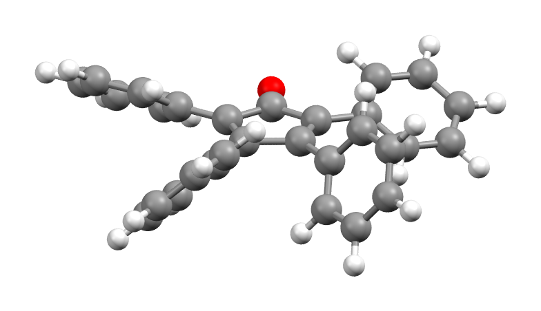 Structure of tetraphenylcyclopentadienone. (1991). Acta Cryst. C47: 164-168.